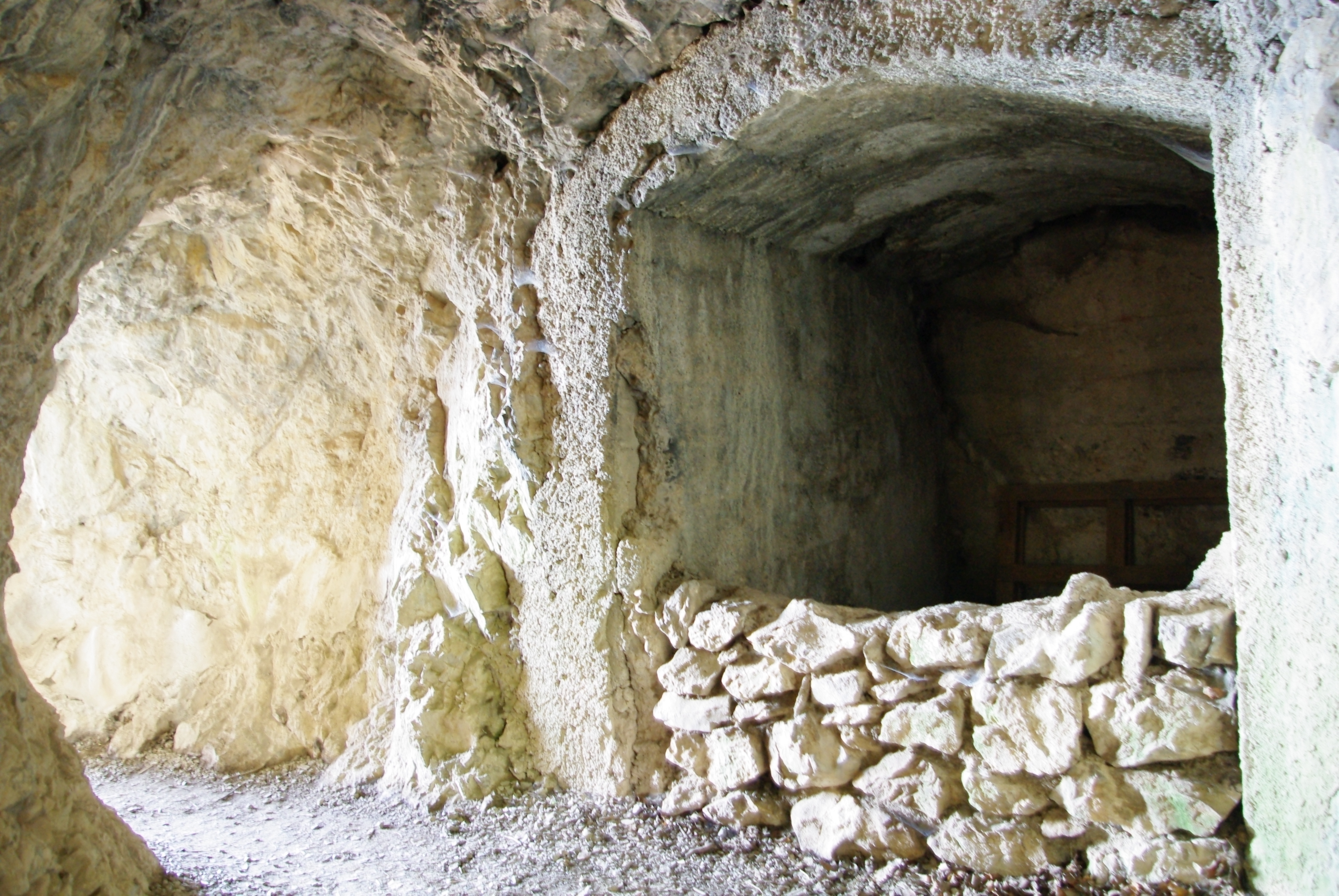 Inside of bunker on Rilke trail, Sistiana, TS, Italy